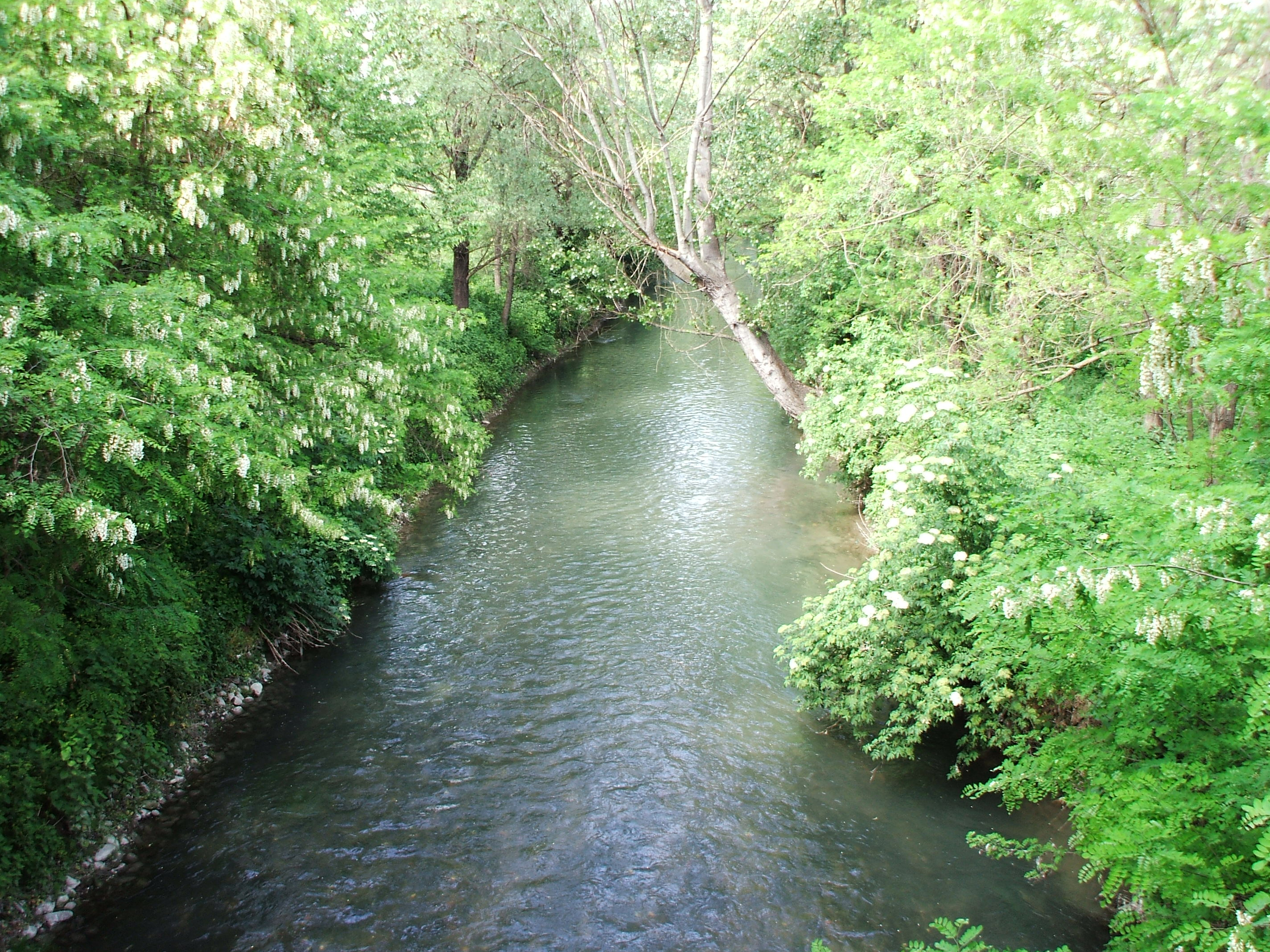 View of Canale Navile in Bologna as seen from Villa Angeletti Park